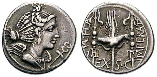 Denarius of C. Valerius Flaccus. Military issue from the mint at Massalia, 82 BC. Obverse: winged bust of Victory; winged caduceus in front. Reverse: legionary aquila flanked by military standards, one on left marked H (Hastati), one on right P (Principes). Below is abbreviation ex s(enatus) c(onsulto), "by decree of the senate". On left abbreviated form of name C(aius) Val(erius) Fla(ccus), with imperat(or) on the right.